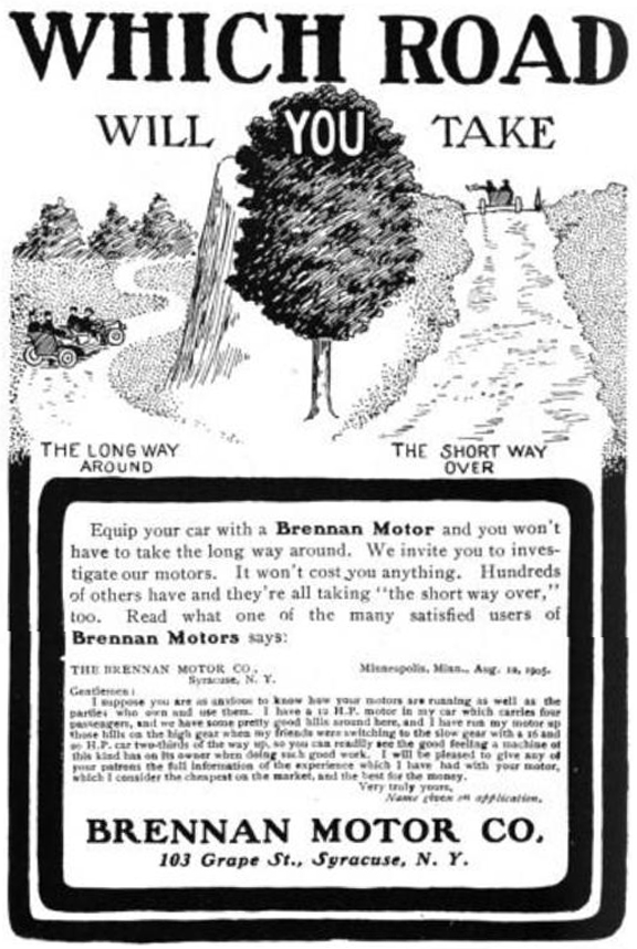 Brennan Motor Co. - Which Road Will You Take - Syracuse, New York - 1905